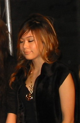 "Gubgib" Summanatip Lerng-authai at It's my MTV Party